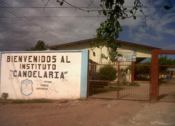 High School Candelaria